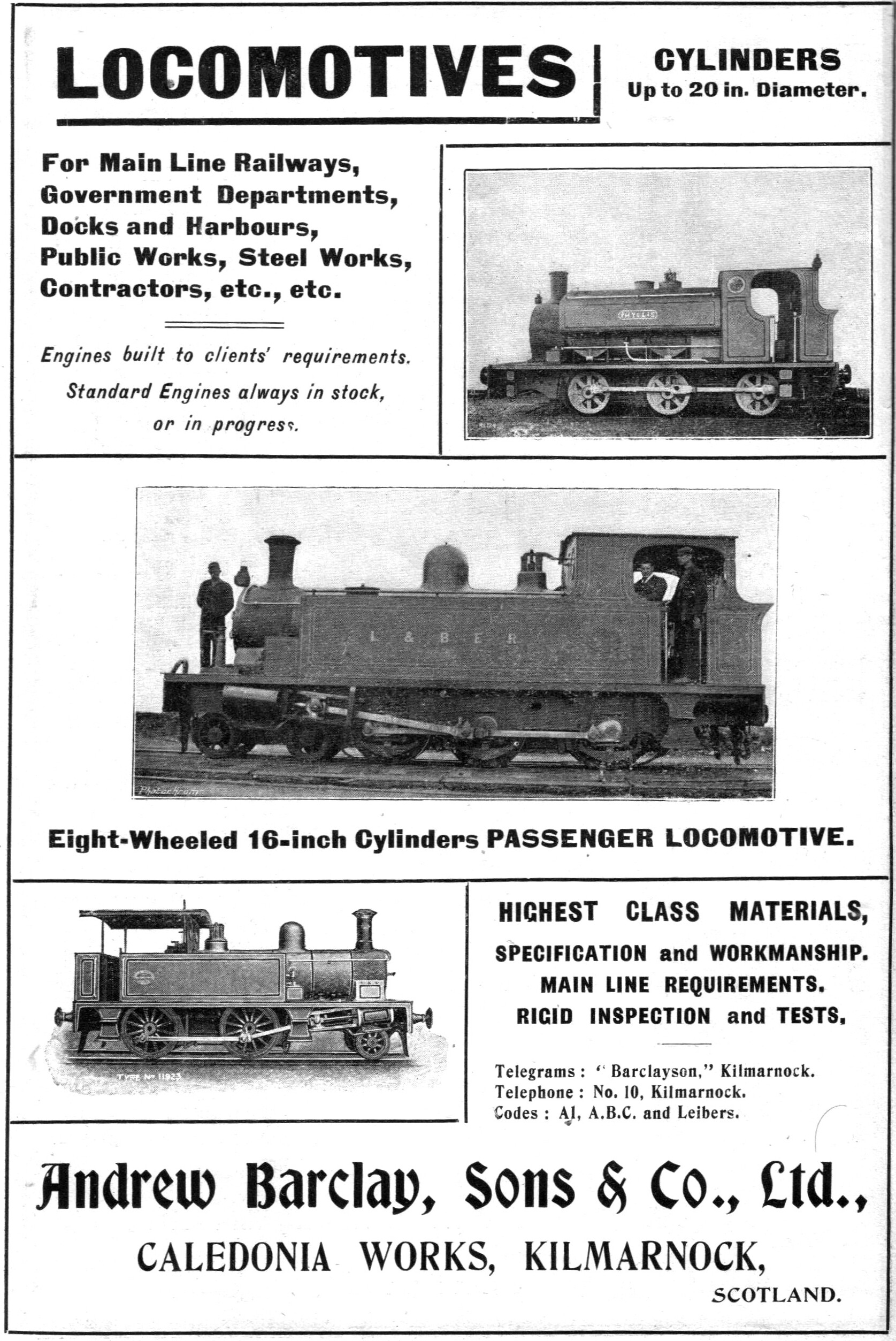 Advert, Andrew Barclay (Railway Magazine, 100, October 1905).jpg